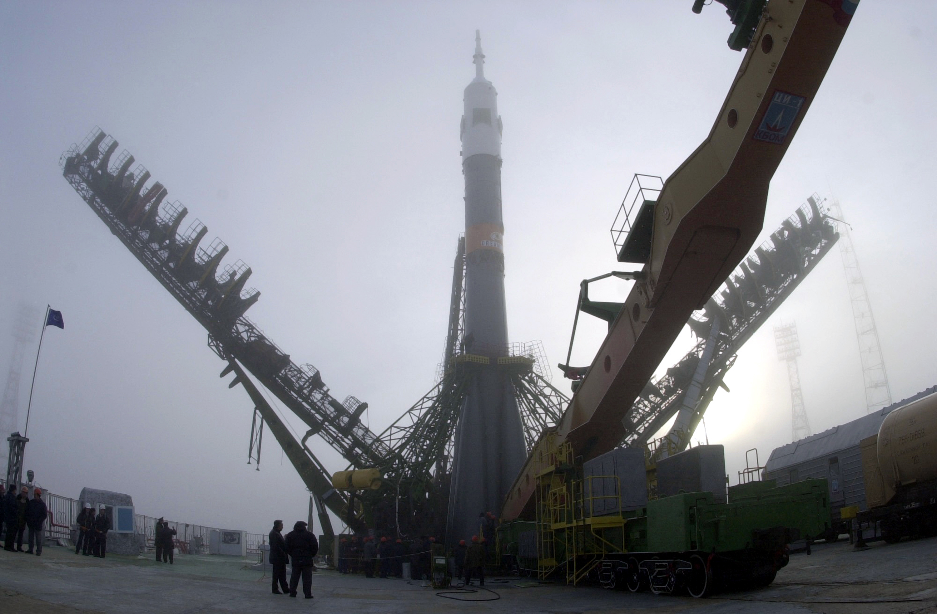 Russian Soyuz TM-31 in Launch Position, 29 October 2000 The Soyuz TM-31 launch vehicle is shown in the vertical position for its launch from Baikonur, carrying the first resident crew to the International Space Station. The Russian Soyuz launch vehicle is an expendable spacecraft that evolved out of the original Class A (Sputnik).